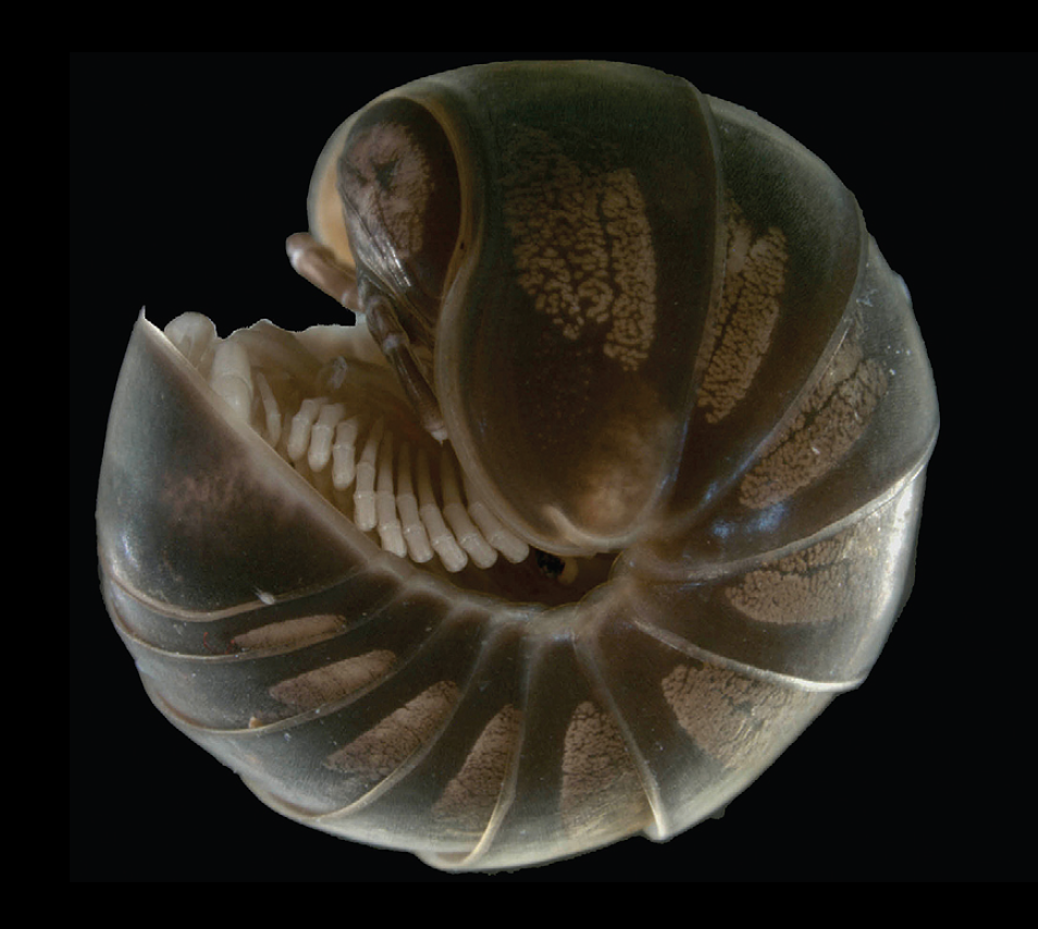 Glomeris sublimbata Lucas, 1846, ♂ from Tunisia, Aïn Draham area; habitus, lateral view. )